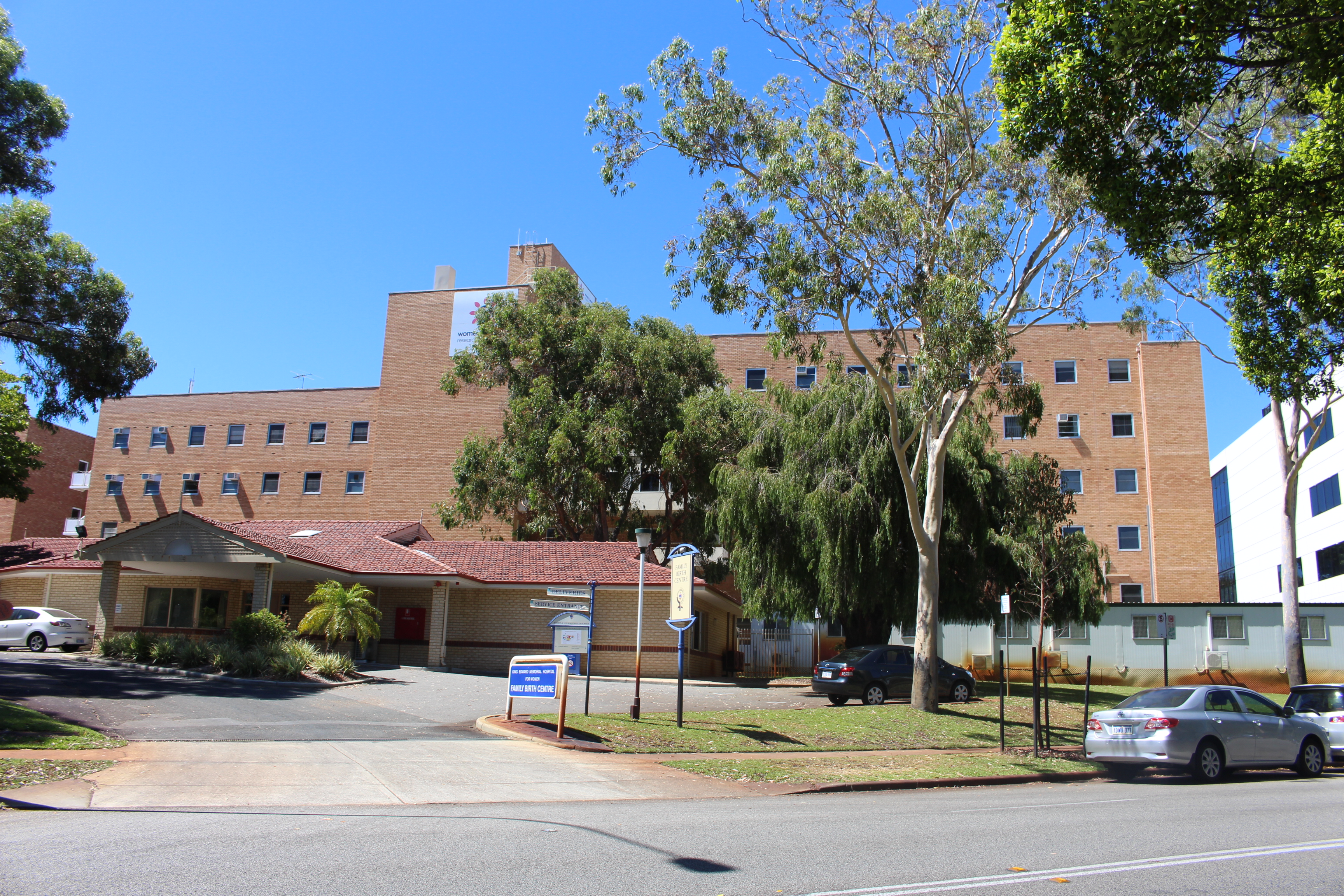 Family Birth Centre (front) and Agnes Walsh House (back) buildings of King Edward Memorial Hospital for Women in Subiaco, Western Australia. Photographed from Railway Rd.